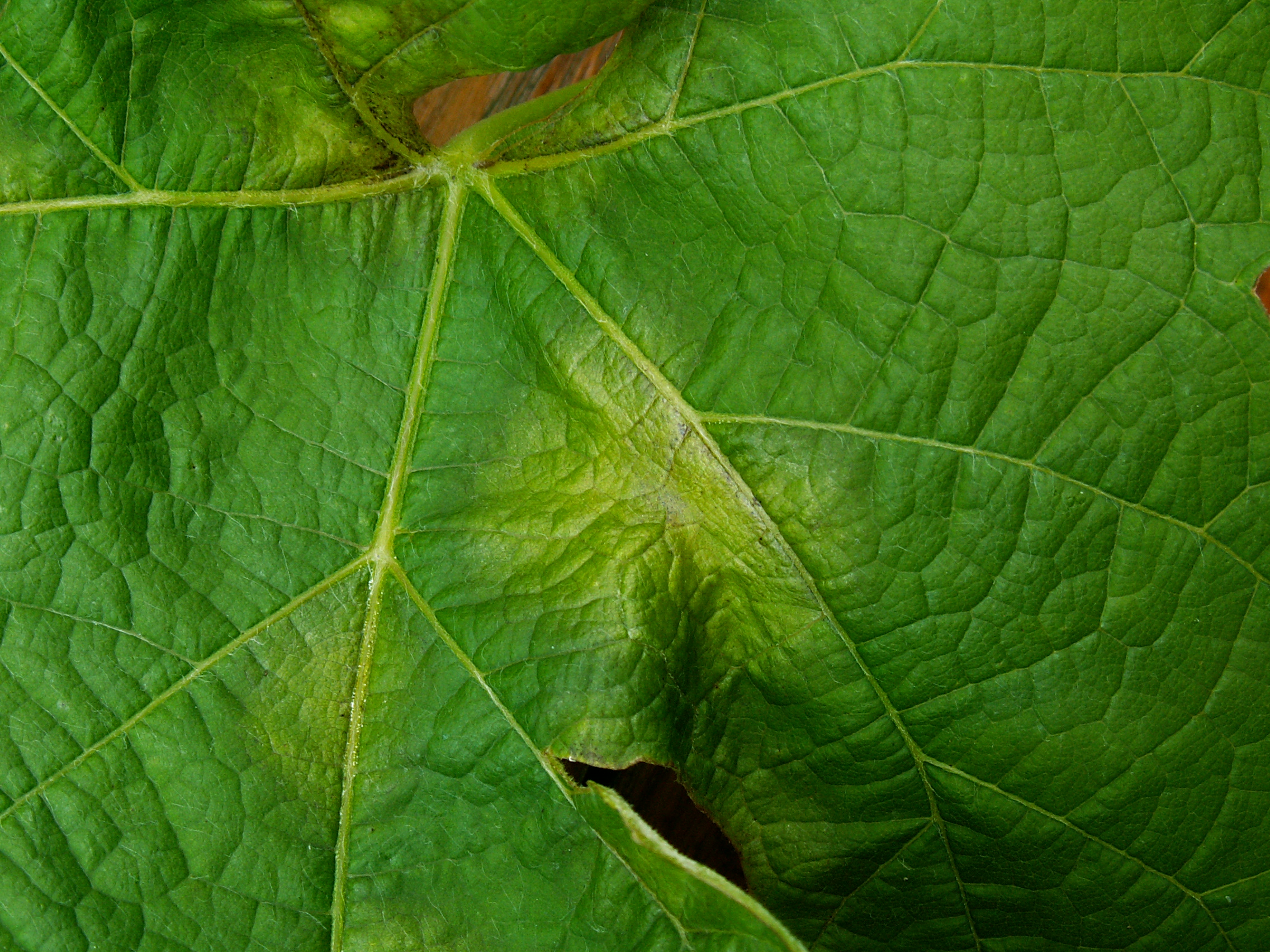 Mildew on the front of the vine leaf